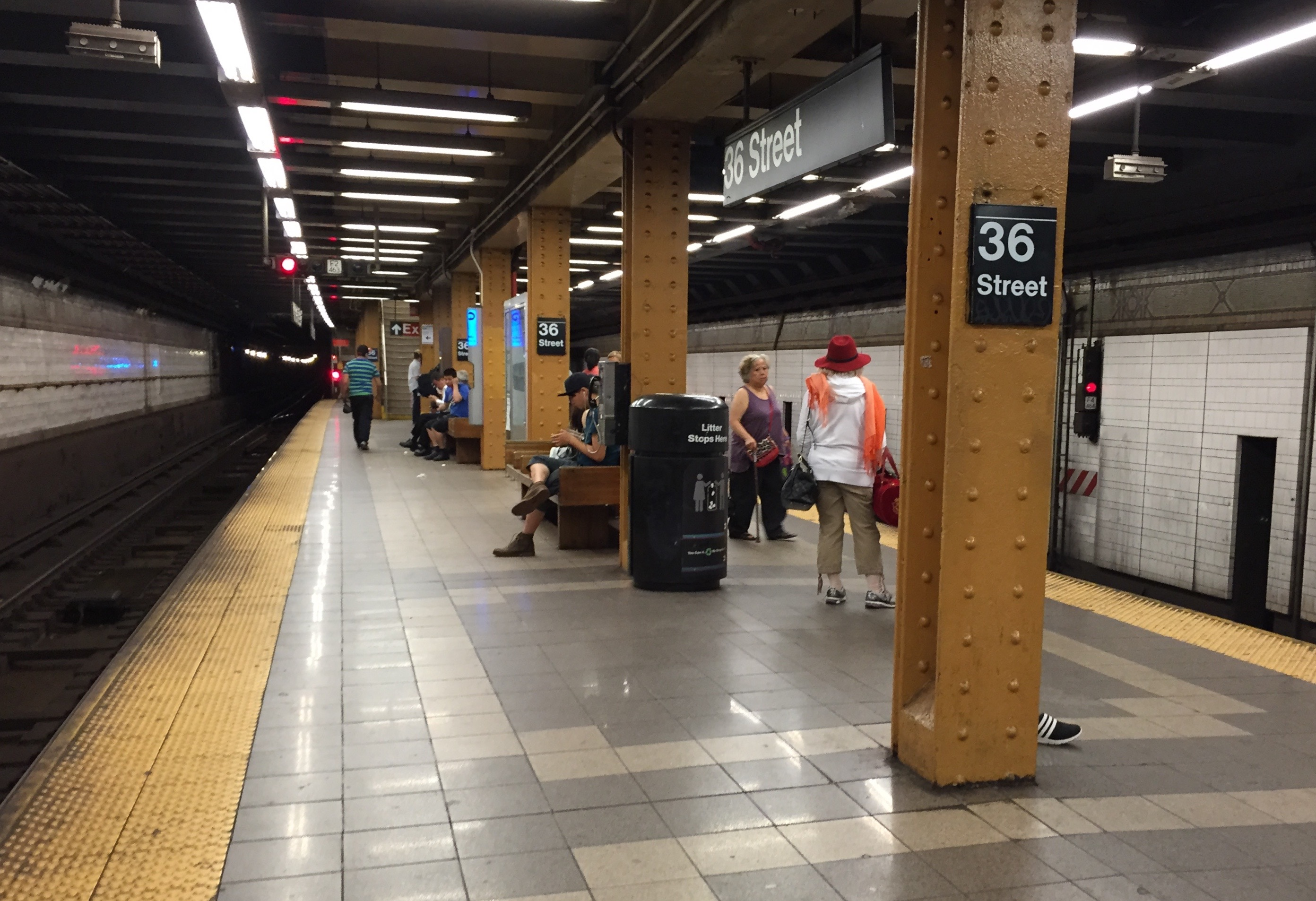 Uptown platform at 36th Street on the D/N/R